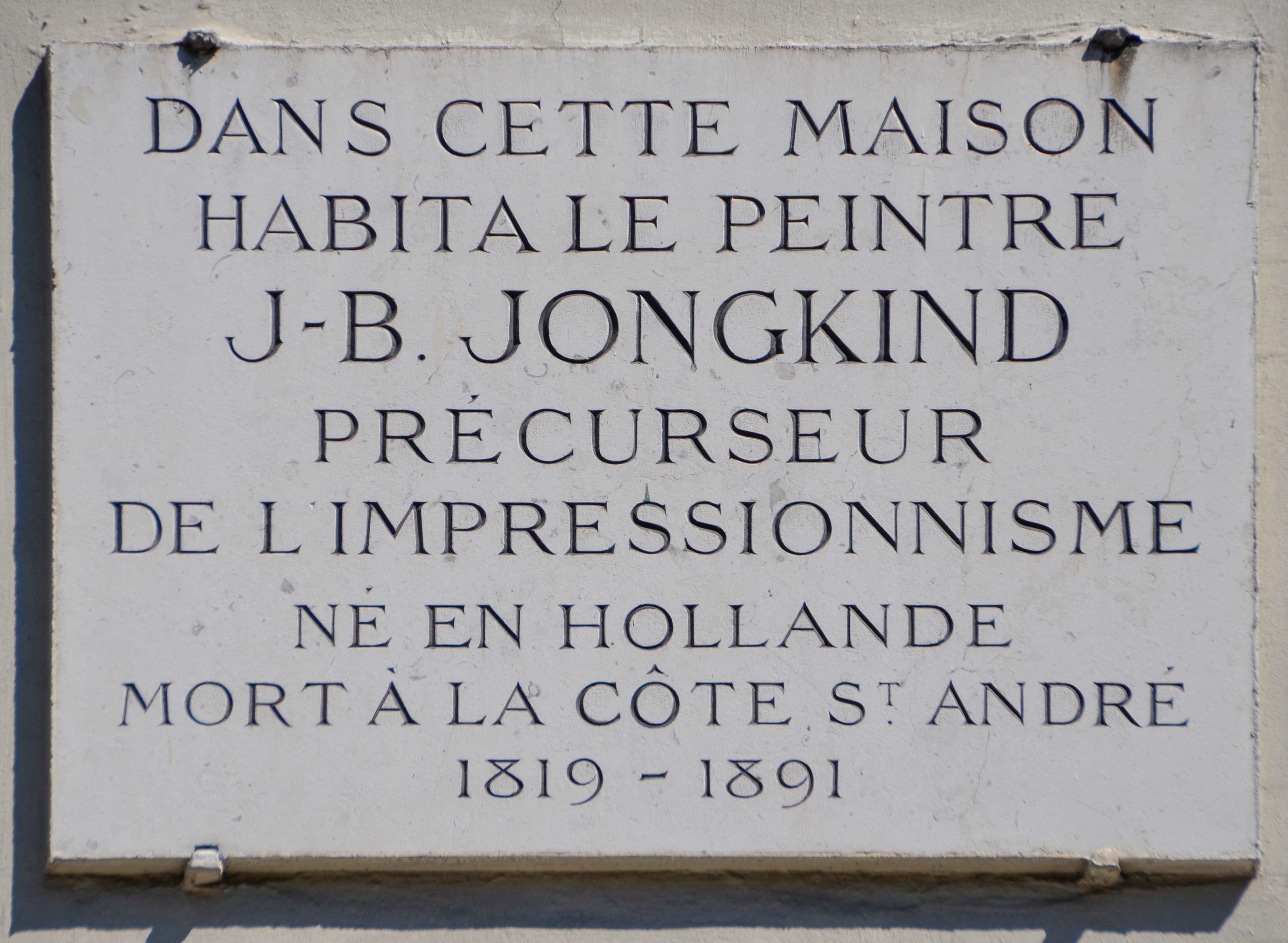 Read about Johan Jongkind here